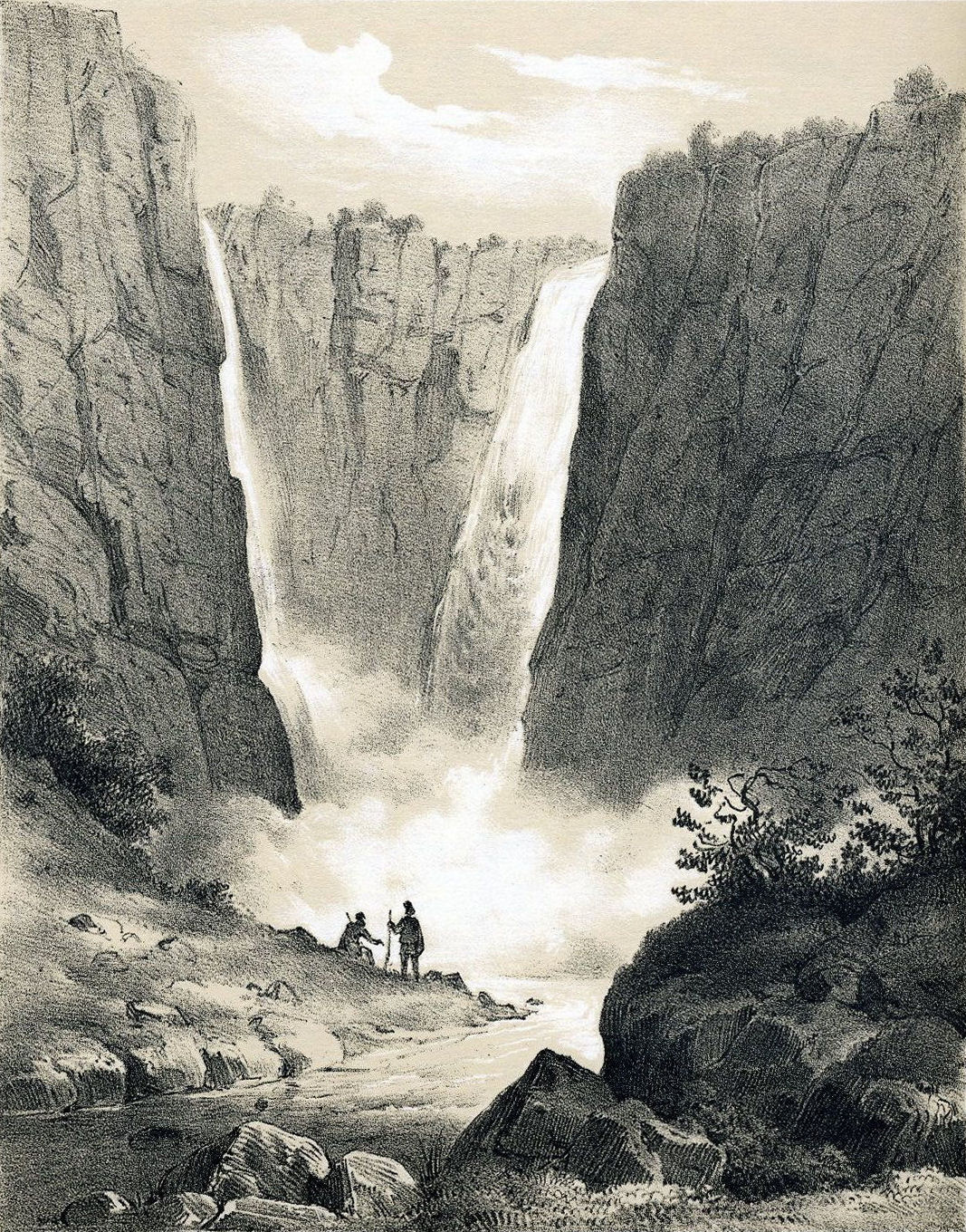 Picture from the Work "Norge fremstillet i Tegninger" 1848 by Chr. Tønsberg. Vøringsforssen, Eidfjord municipality, Hordaland county, Norway.